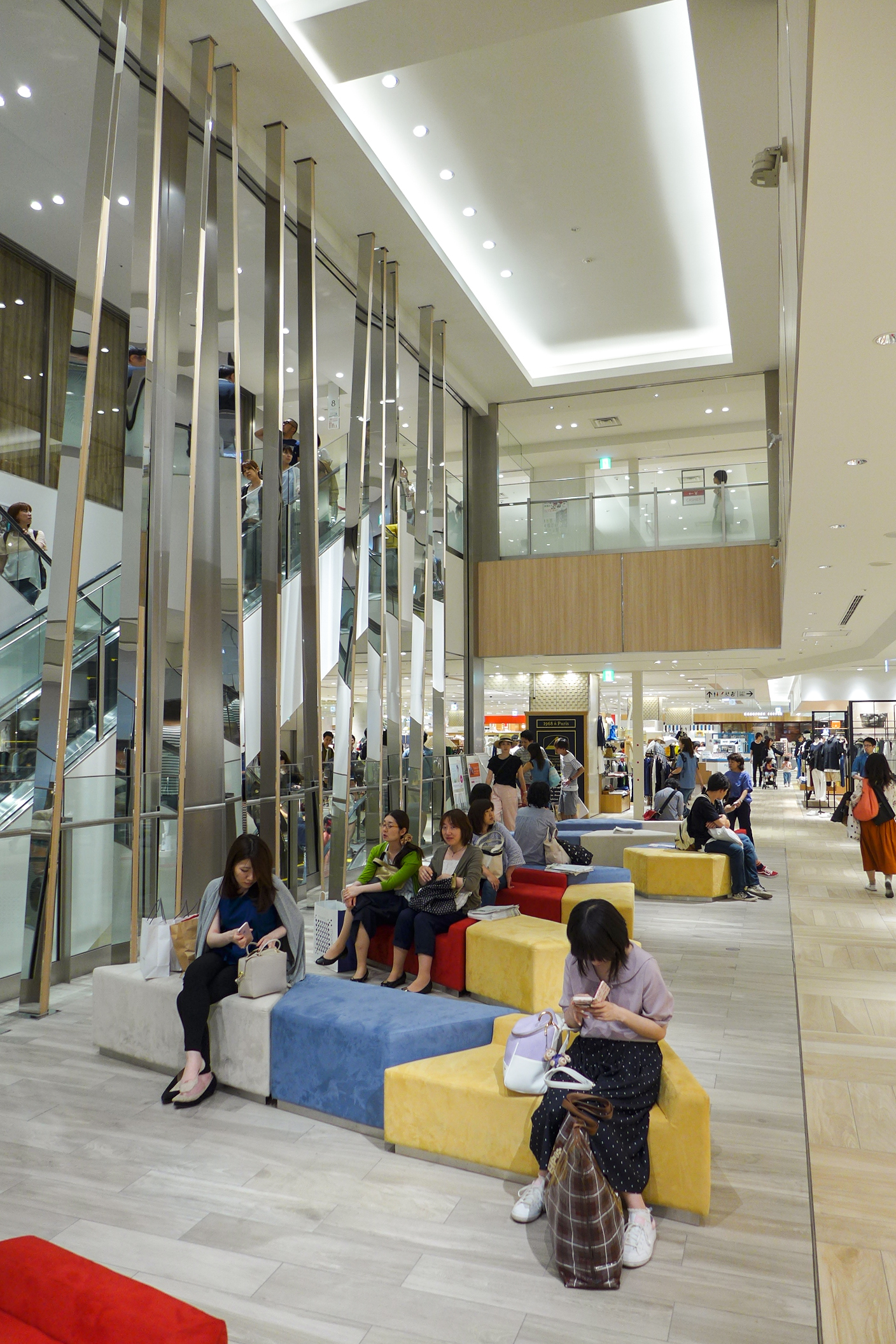 JR Gate Tower Gatetower Mall Level 7-8 Void